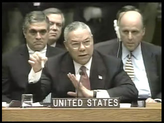 U.S. Secretary of State Colin Powell holds a vial of anthrax during his presentation to the United Nations Security Council on February 5, 2003. Seated behind him are CIA Director George Tenet (left) and UN Ambassador John Negroponte (right). Image captured from the RealMedia video stream available at